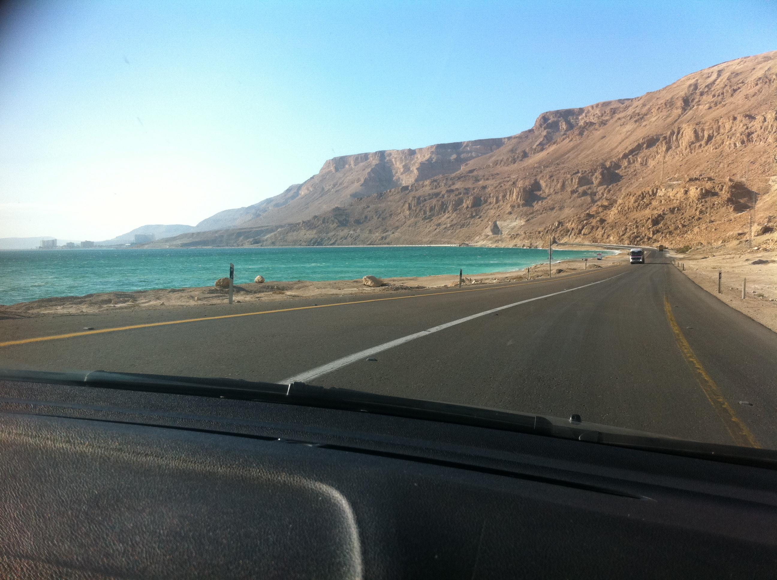 Geography of Israel